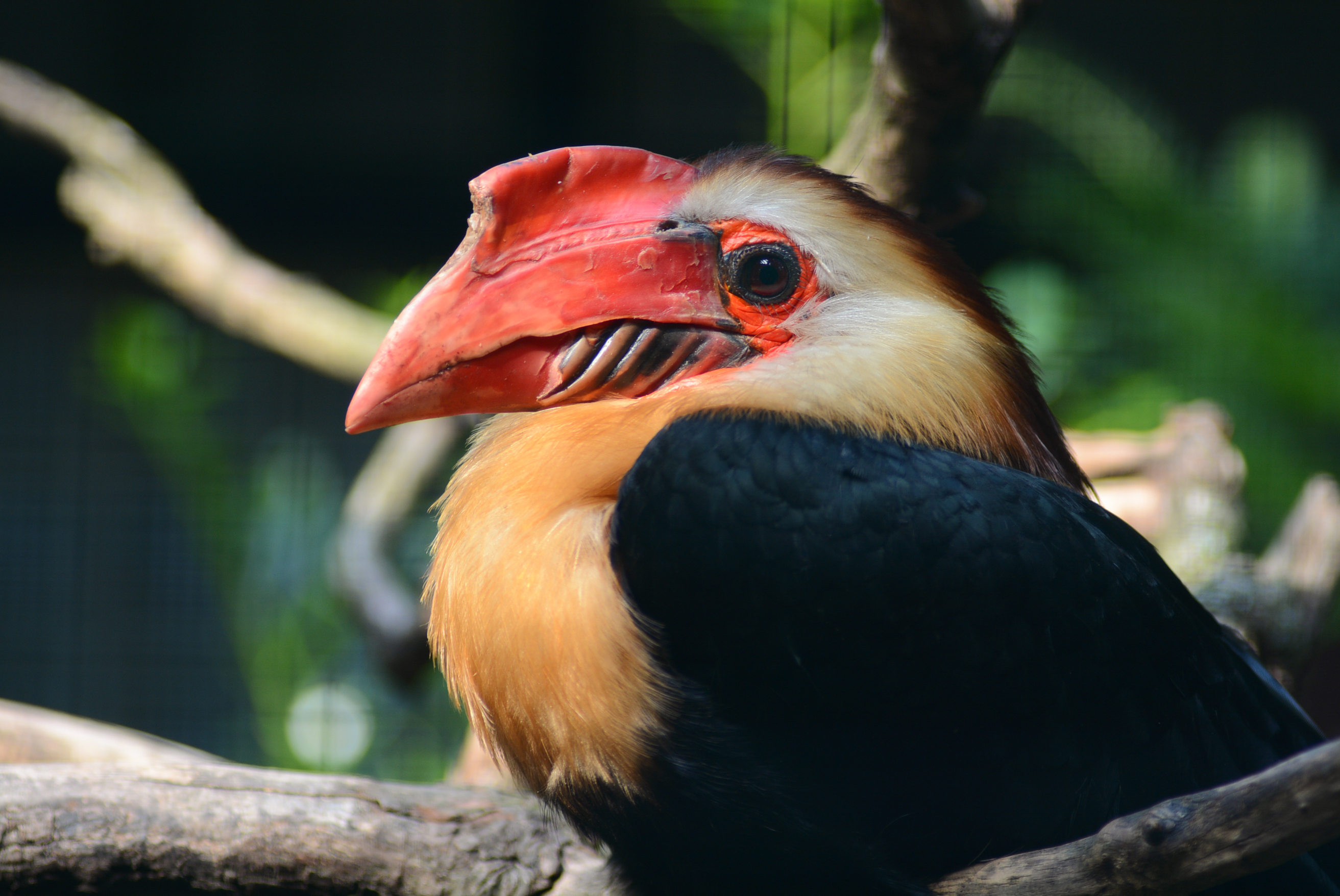 Writhed Hornbill (Aceros leucocephalus) (male) at Weltvogelpark Walsrode (Walsrode Bird Park, Germany)